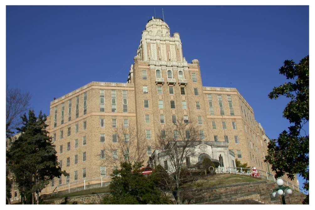 Hot Springs Rehabilitation Center located in Hot Springs, Arkansas